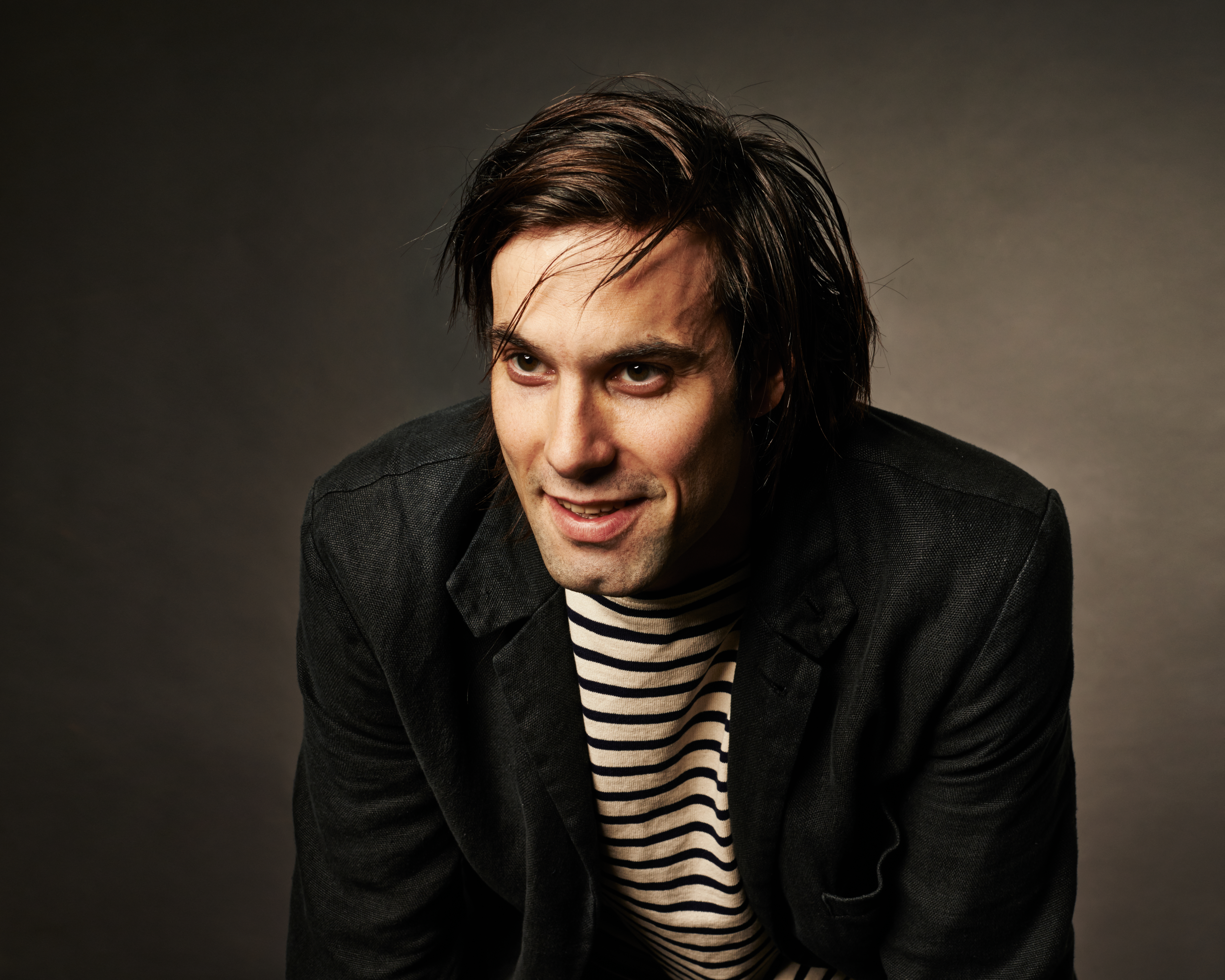 31-year-old Max Simonischek from Berlin, is an established actor in German theatre and cinema.